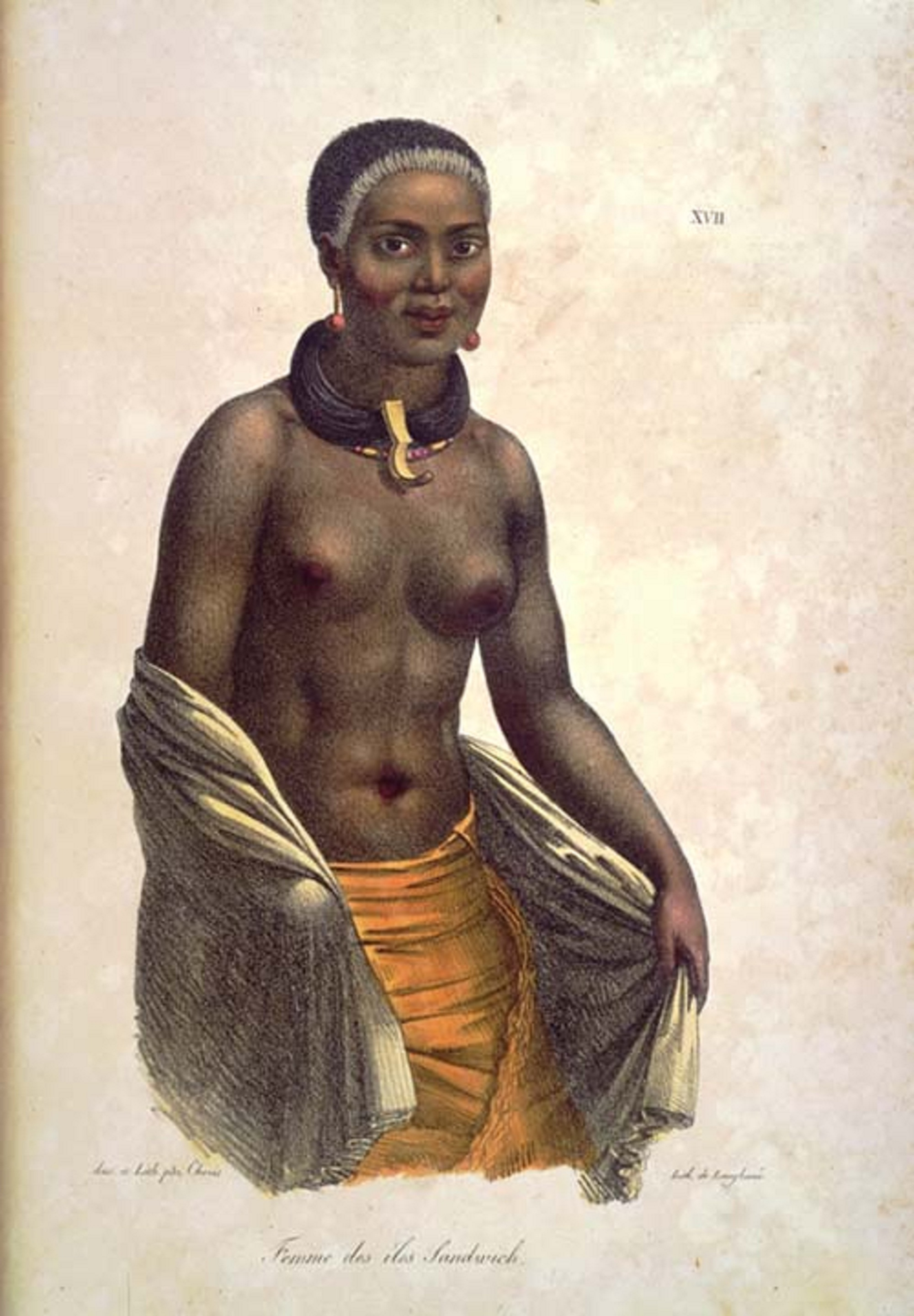 Femme des iles sandwich; 1882 by Louis Choris. Published in Voyage Pittoresque Autour du Monde 1820-1822.